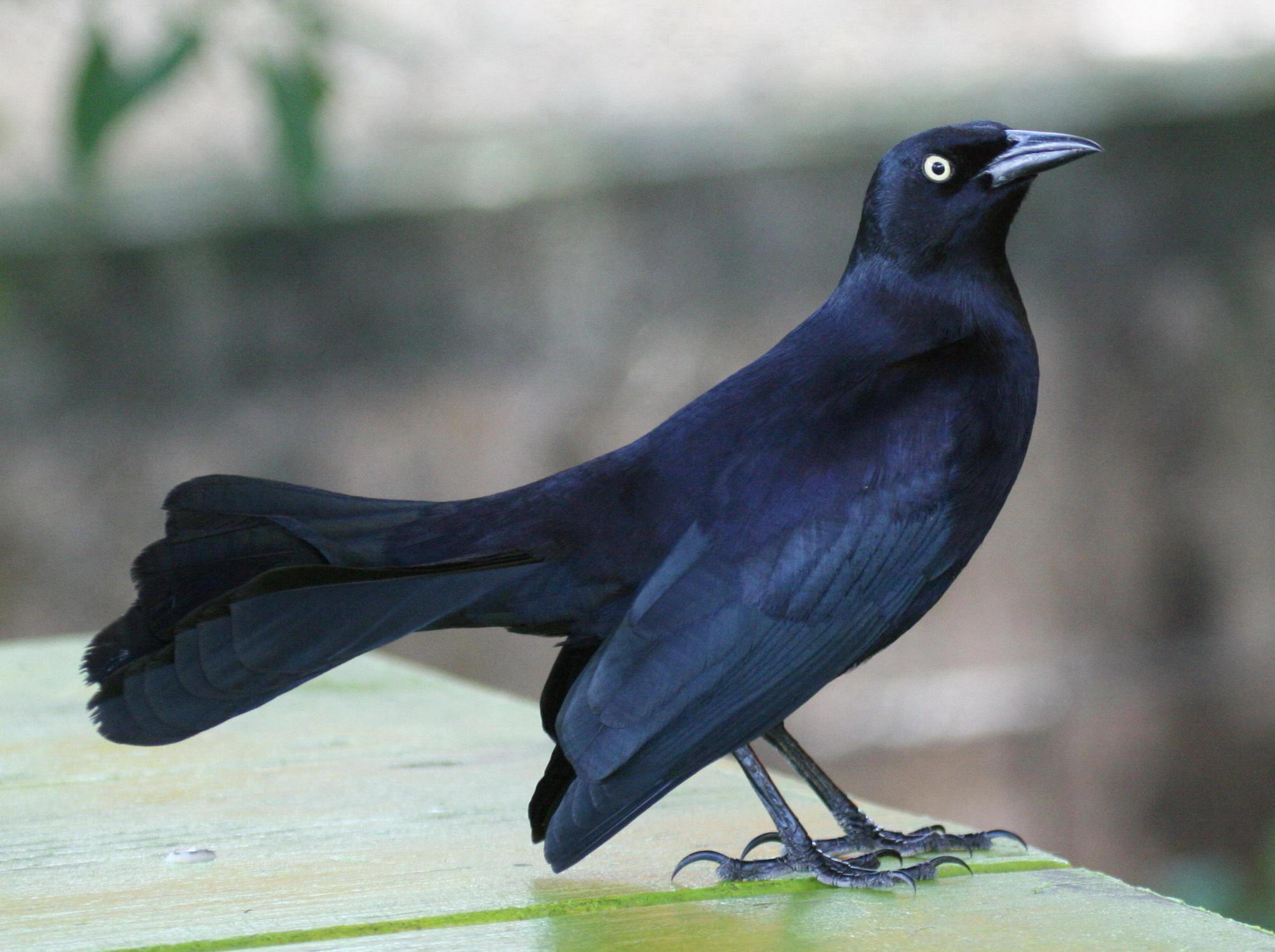 Greater Antillean Grackle (Quiscalus niger) in Puerto Rico